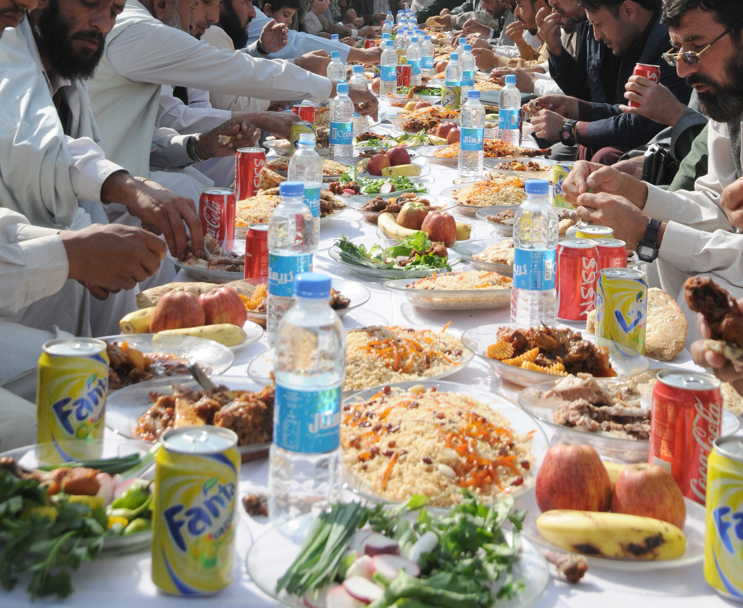 VIRIN: 091105-F-2703B-185 (Cropped image) Immediately following a ribbon cutting ceremony, the ceremonial first vehicle crossing and the unveiling of a historical plaque, Kunar provincial government leaders celebrate the opening of the Khas Kunar Truck Bridge with a feast served in typical Afghan "family style" Nov. 5, 2009. The bridge across the Konar River was a joint project between Provincial Reconstruction Team-Kunar and the local Afghanistan government. Construction started 24 months ago and represents a $1.68 million investment that paves the way for increased security and commerce in the Khas Kunar district. (Kunar Provincial Reconstruction Team